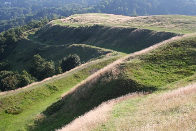 Northern Extension to British Camp The original iron-age hill fort encircled Herefordshire Beacon. It later expanded, north and south, requiring huge defensive ditches to be dug. After two thousand years these are still impressive especially when caught in the early morning sunlight.